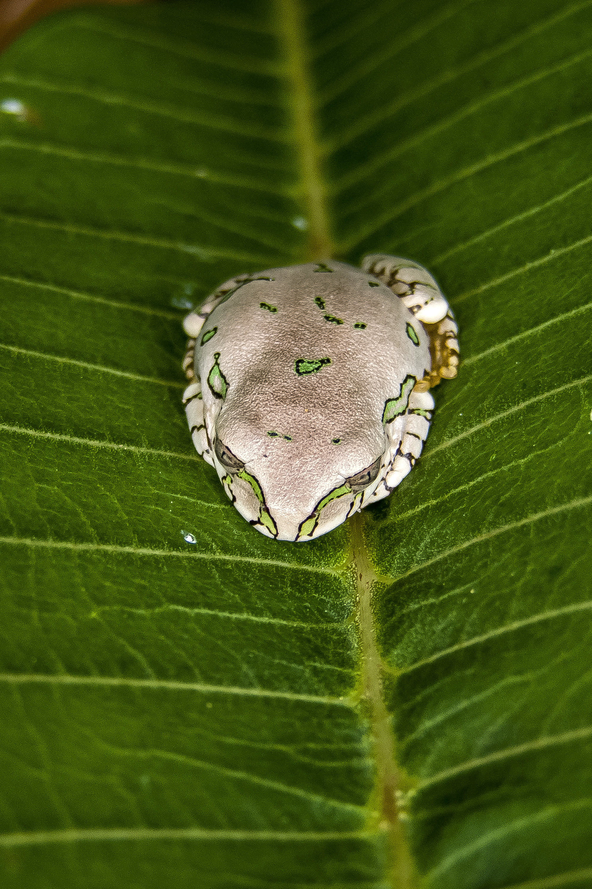 Sleeping Natal forest tree frog on a frangipani leaf